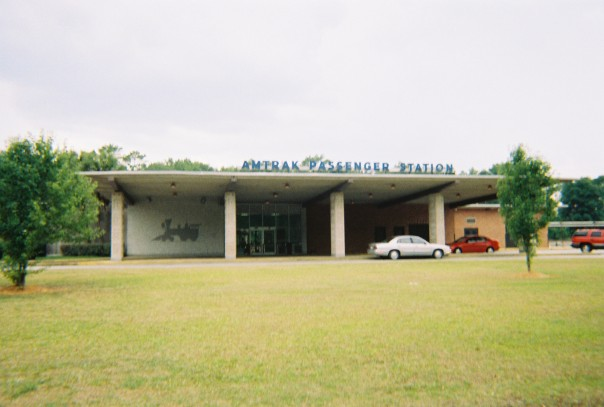 Author: me